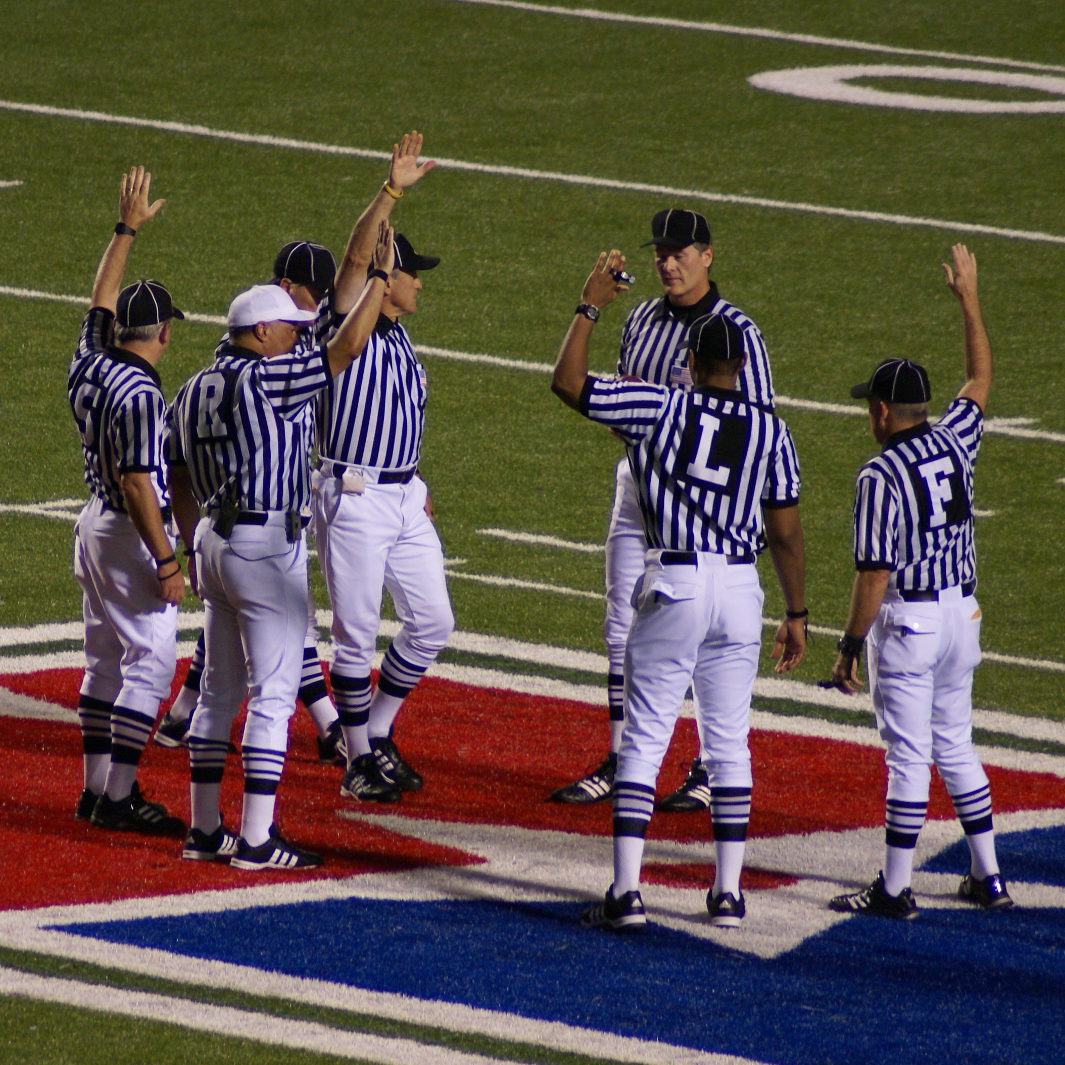 Some American Football referees from a Razorback game. Perhaps they're trying to determine consensus? Maybe trying to figure out what restaurant to go to after the game? Maybe they just like high fives. Anyway, cool pic of all of them.